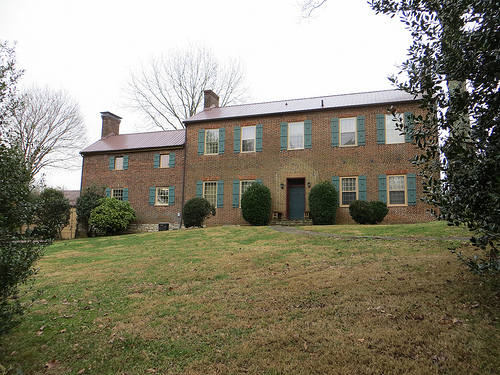 Original Statesview Home. Front view of the original house that overlooked most of this West Knoxville Tennessee property.